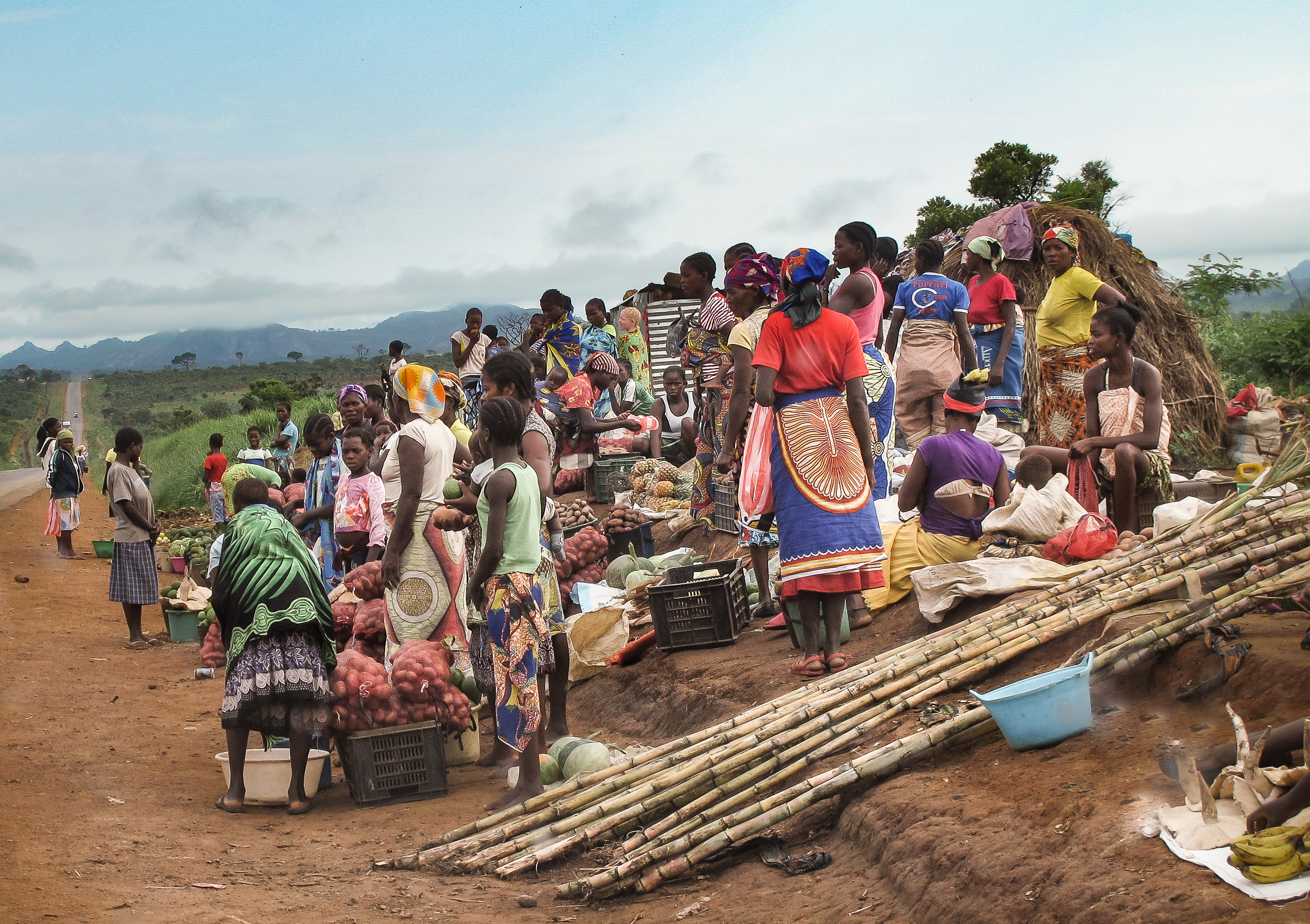 Buying and selling food on the Angolan routes This is an image of "African people at work" from Angola